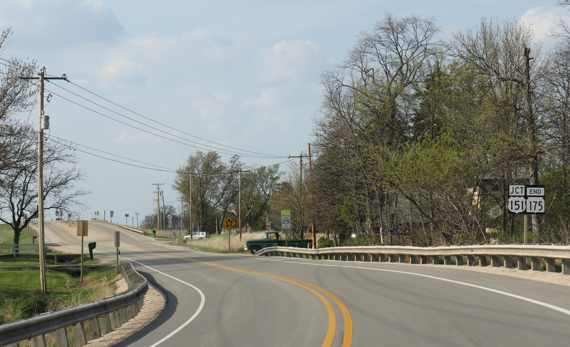 Looking north at the northern terminus of Wisconsin Highway 175 just south of Fond du Lac. This became the terminus after the highway was shortened in 2007.